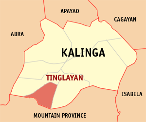 Map of Kalinga showing the location of Tinglayan